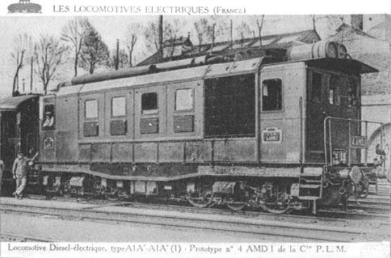 Postcard of the Diesel prototype (A1A)(A1A) PLM 4 AMD 1, 1932, future SNCF BB 60011